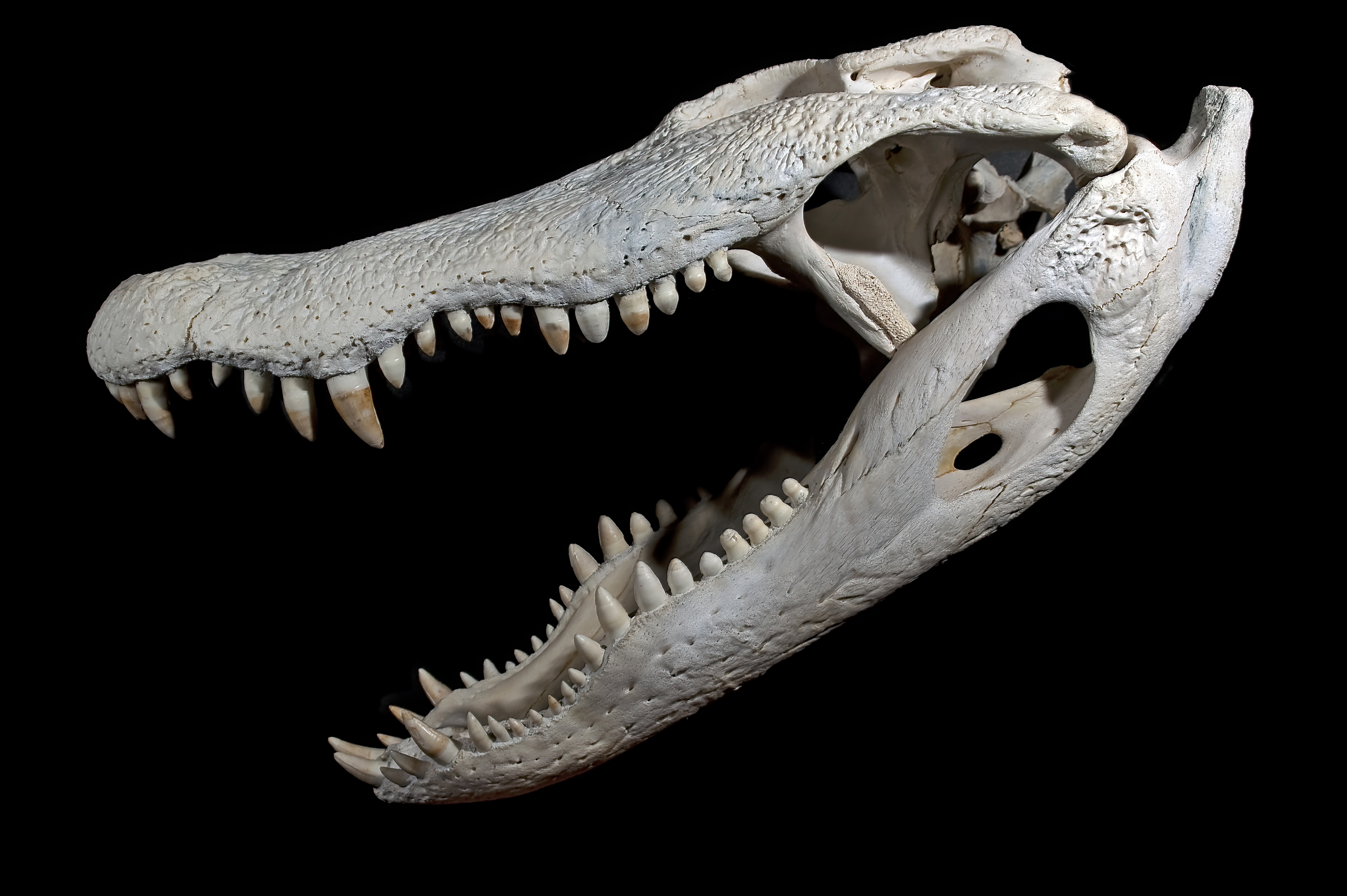 American Alligator (Alligator mississippiensis) Skull and mandible (47cm)